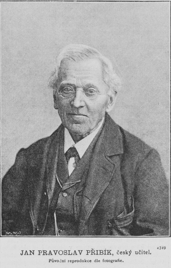 Portrait of Jan Pravoslav Přibík (1811-1893), Czech teacher and writer.